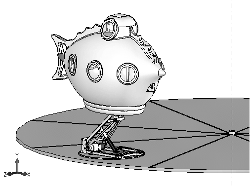 Lift used in a merry-go-round, "Nautilus" (Concept 1900 International), inspired by 20,000 leagues Under The Sea by Jules Verne.